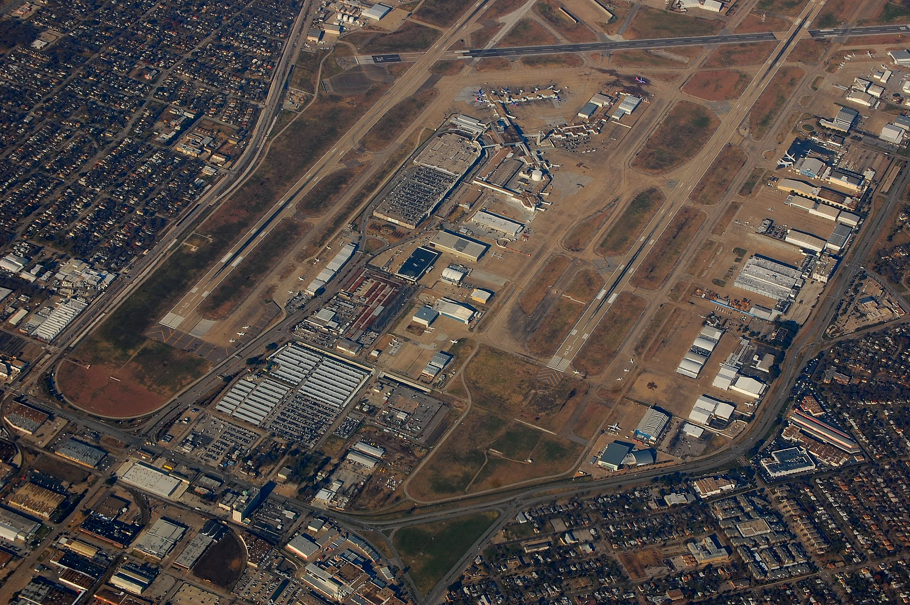 Aerial view of Dallas Love Field